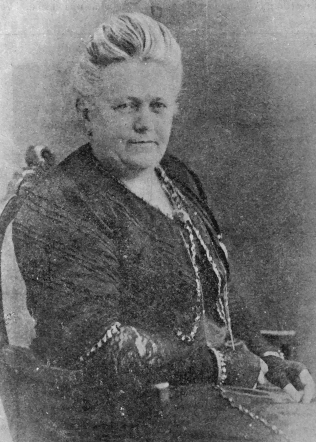 Marie Musæus-Higgins, daughter of Mecklenburg judge Theodor Musæus. Widow of Principal of the Musæus College, Colombo from 1891 to 1926.